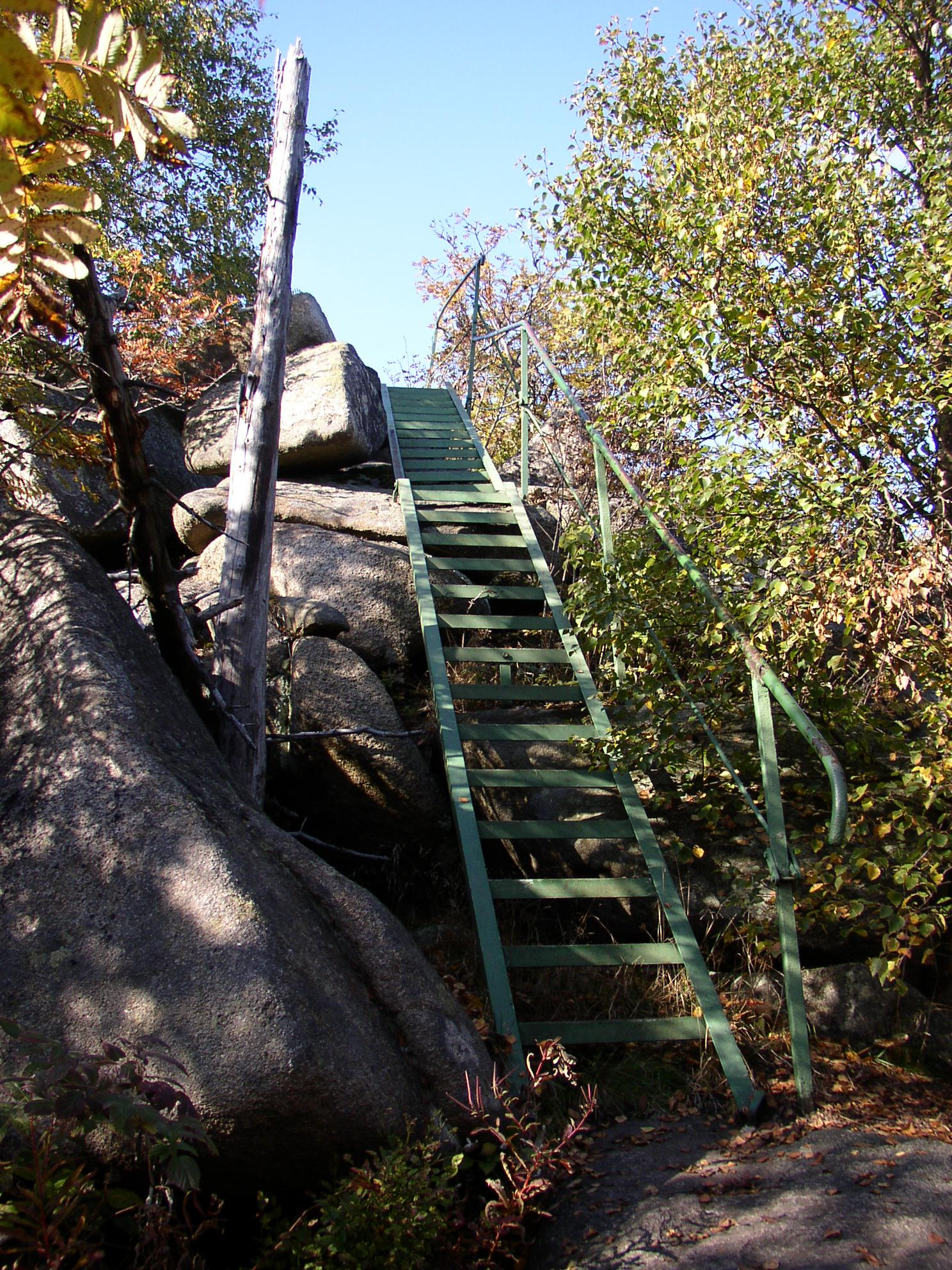 Stairs to „Leistenklippe“ in the Harz National Park in Saxony-Anhalt, Germany